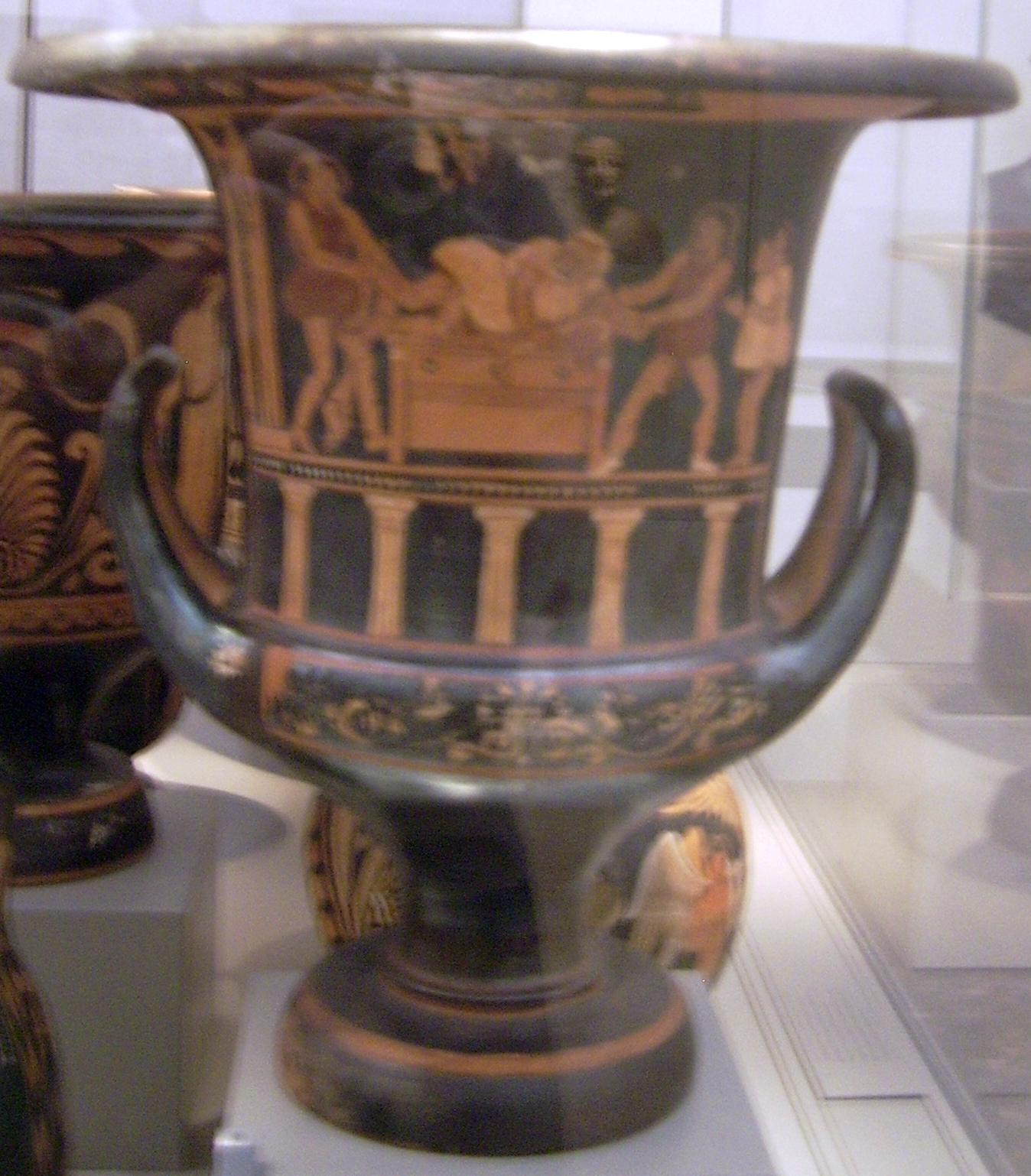 Phlyax scene: three men (Gynmilos, Kosios and Karion) robbing a miser (Kharinos) inside his house. Side A of red-figure calyx-krater made in Paestum, 350–340 BC. From Sant'Agata dei Goti.